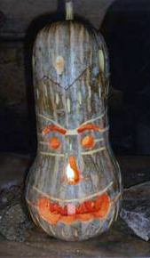 long pumpkin carved into a grotesque face and enlighted by a candle, Sant' Andria feast, Bono - Sassari - Sardinia